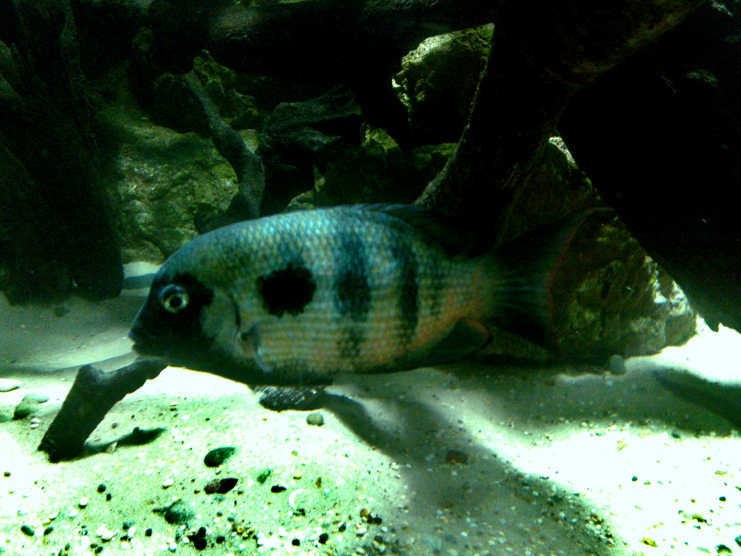 Damba mipentina, latin Paretroplus maculatus. Lives in Madagascar. Photo in London Zoo.